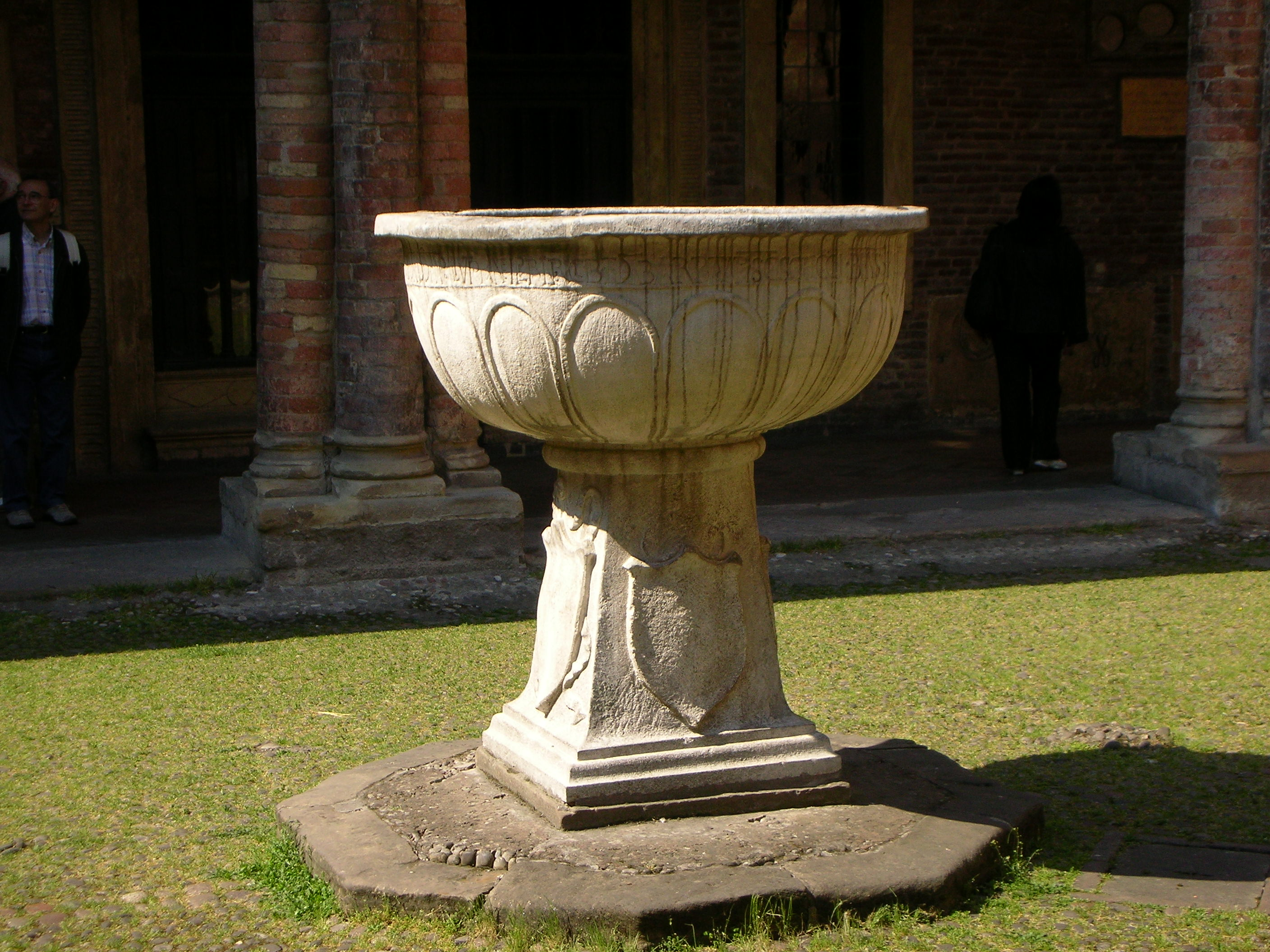 Buildings of Saint Stephen's Basilica in Bologna, Italy, also known as "The Seven Churches". In this picture, the so-called "Pilatus' basin", standing in the middle of the so-called "Pilatus' Courtyard". It is a Lombard sculpture dating from the 8th century, bearing the names of kings Liutprand and Ilprand, as well as of the bishop Barbatus.